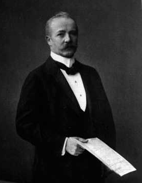 picture of Karl Supf - German entrepreneur and colonialist